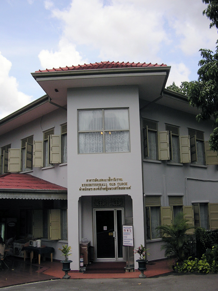 HRH Princess Puang Soi Sa-Ang Residential Hall, Dusit Palace, Bangkok, Thailand